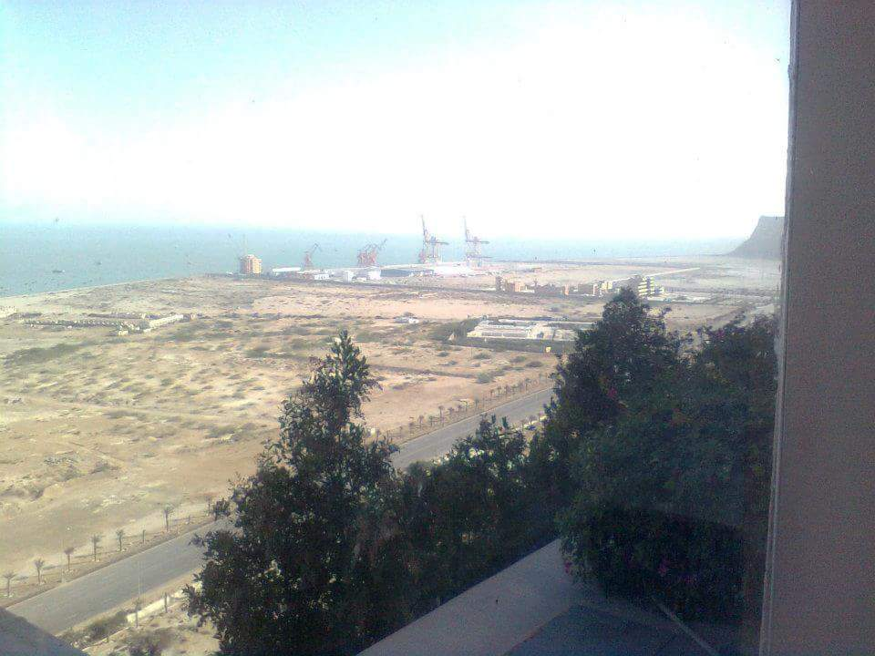 View from PC Hotel Gawadar.